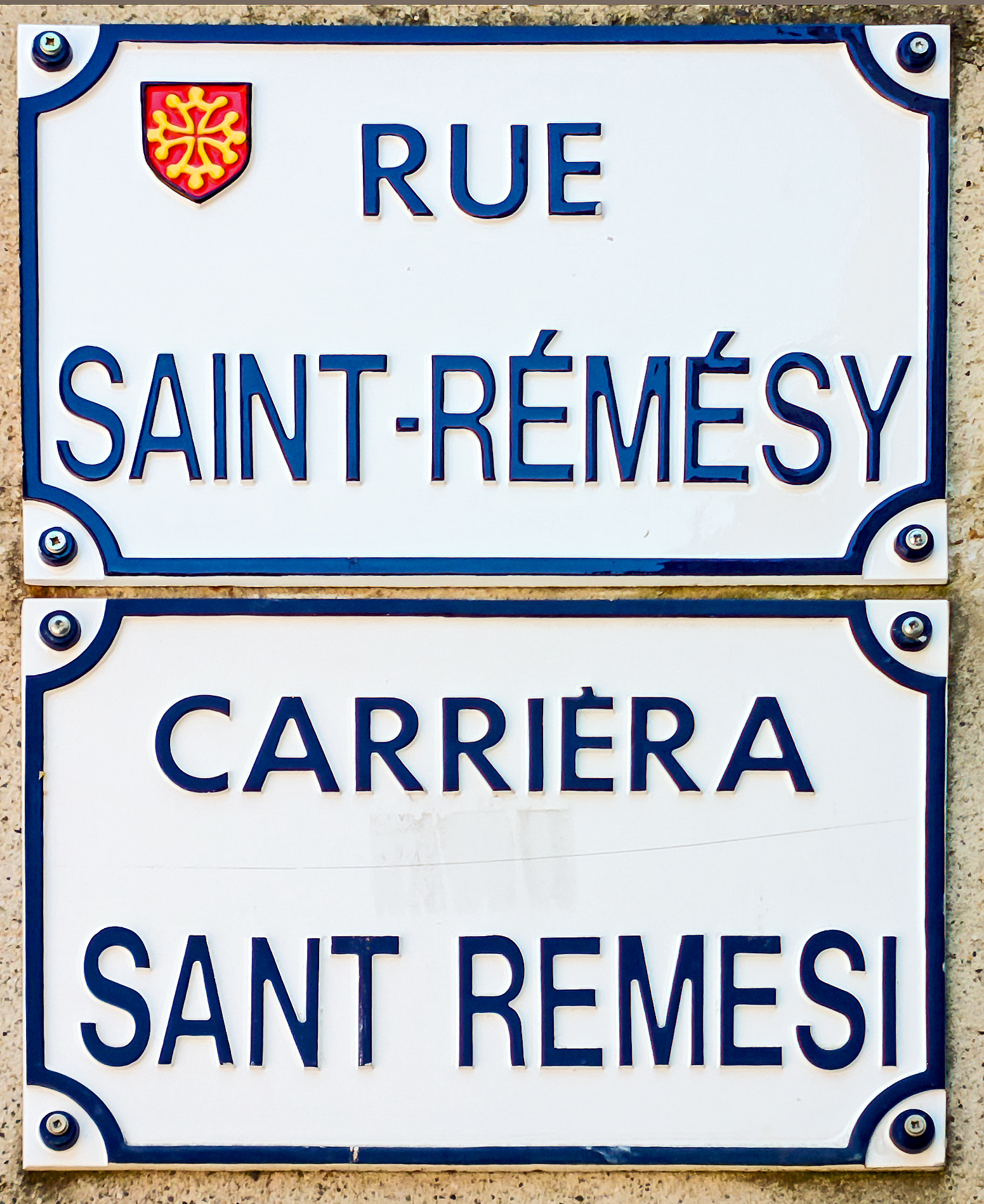 Rue Saint-Rémézy, in Toulouse - Street name sign. They have the particularity of being: in French and Occitan.